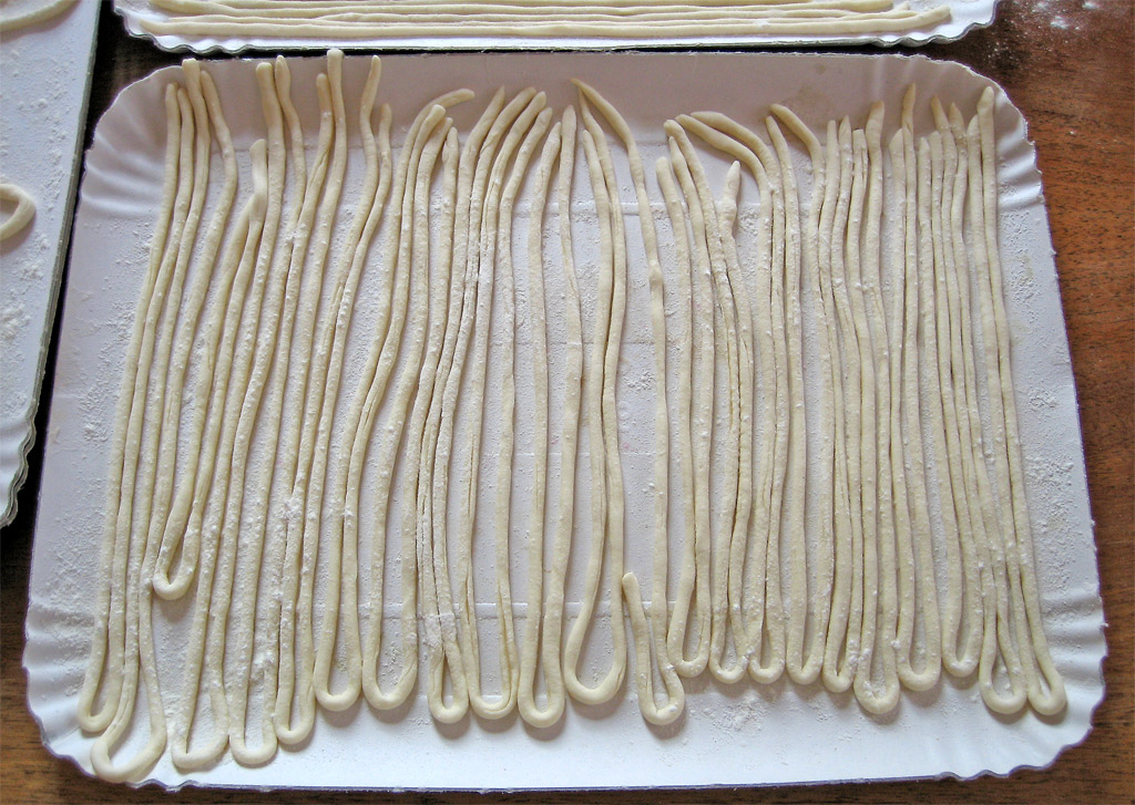 Uncooked and uncut pici (pasta)